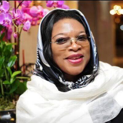 Wikipedia page picture for Chief Temitope Ajayi